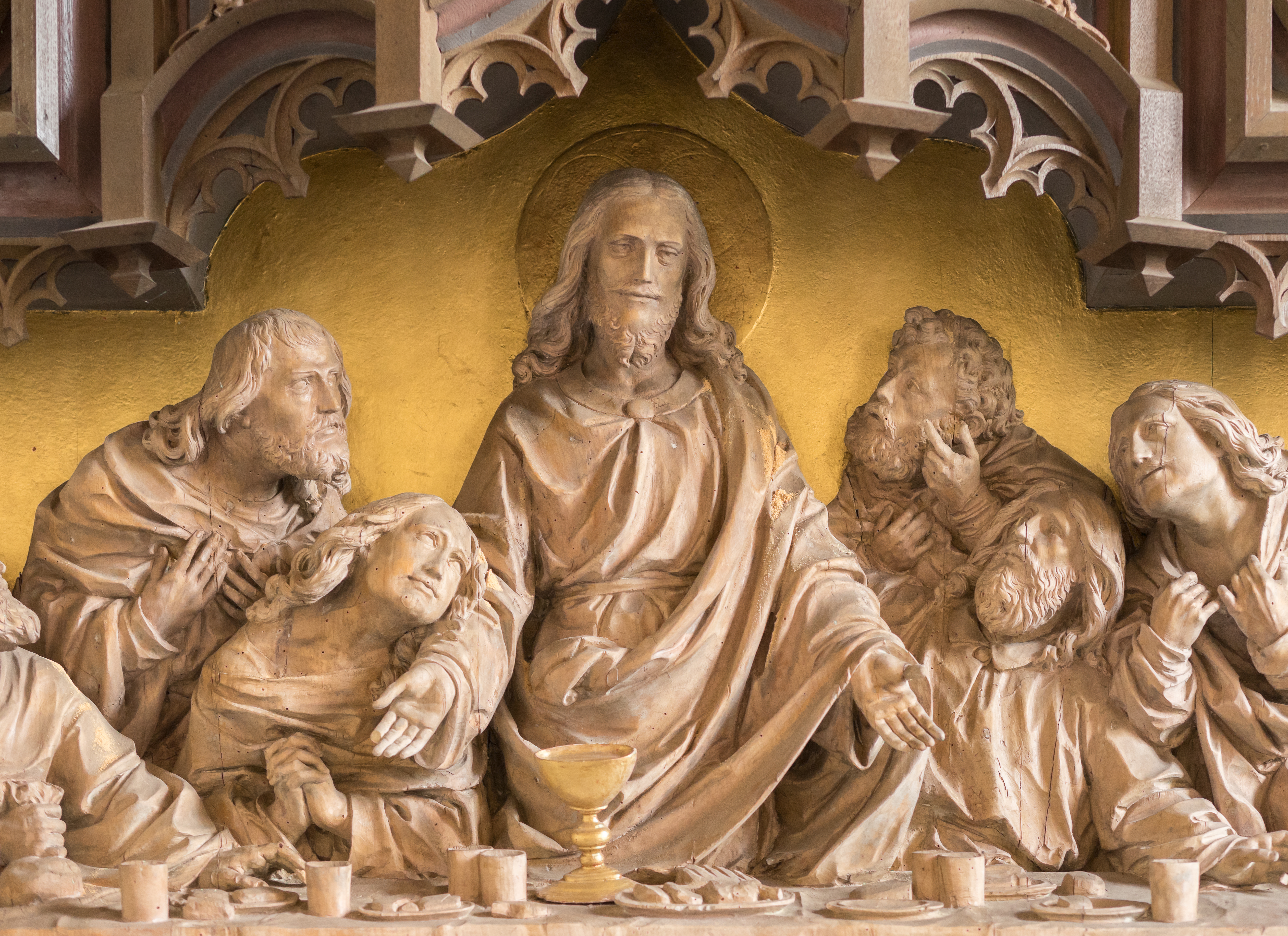 last supper wood carving inside the lutheran church "Unser Lieben Frauen", in Lauben, Swabia, Germany.